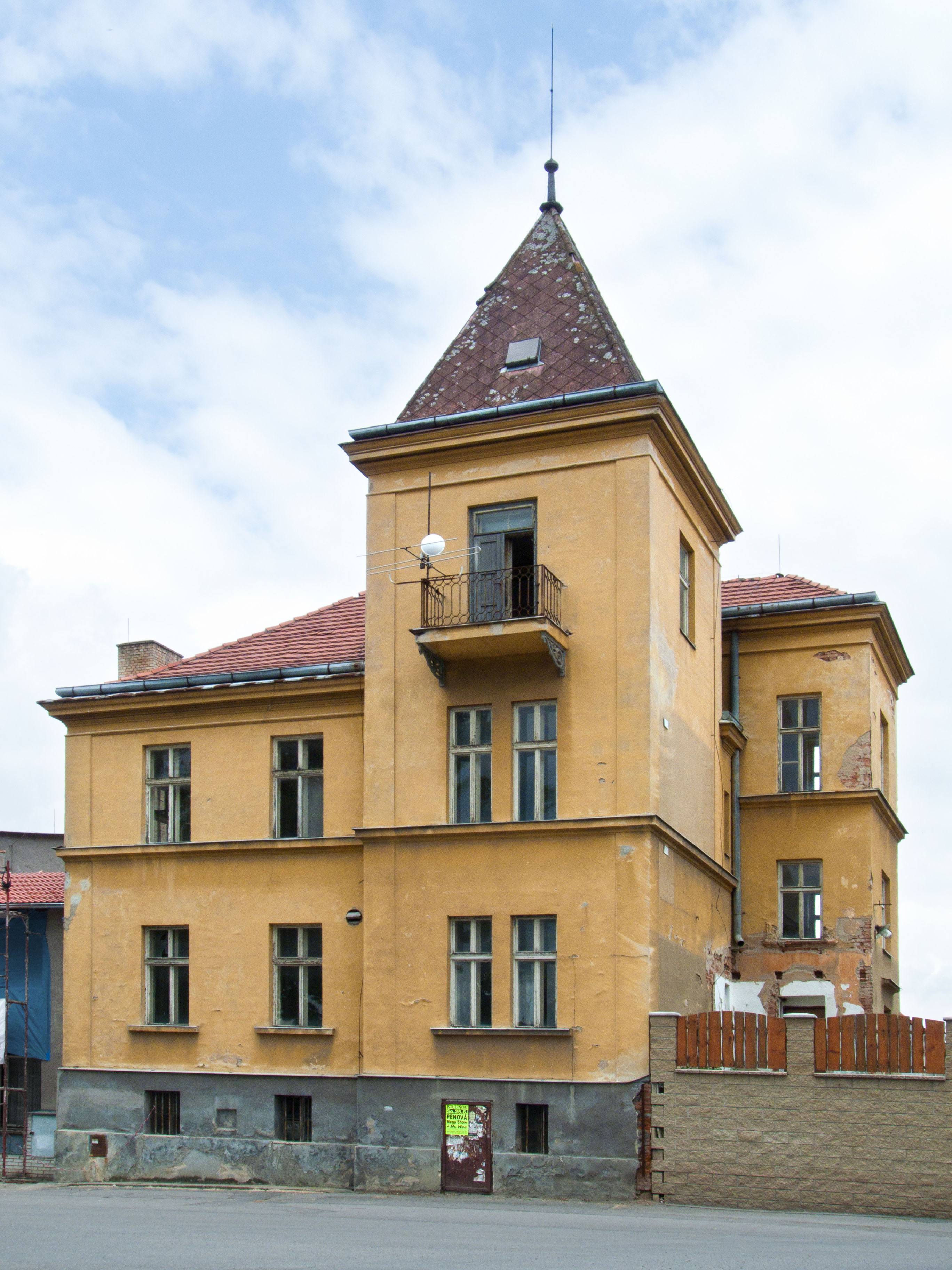 House No 61 in the village of Libníč, České Budějovice District, Czech Republic - municipal office building.